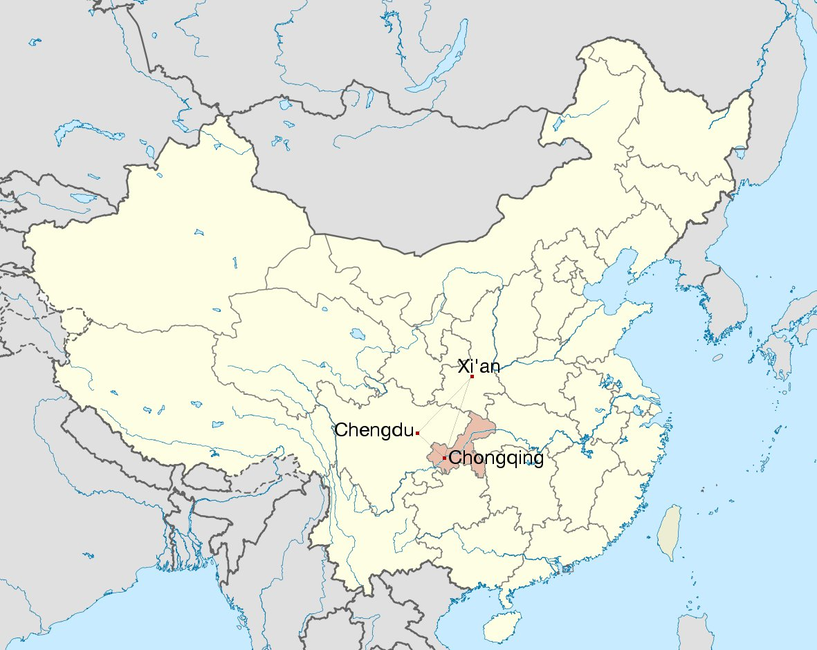 West Triangle Economic Zone city locations